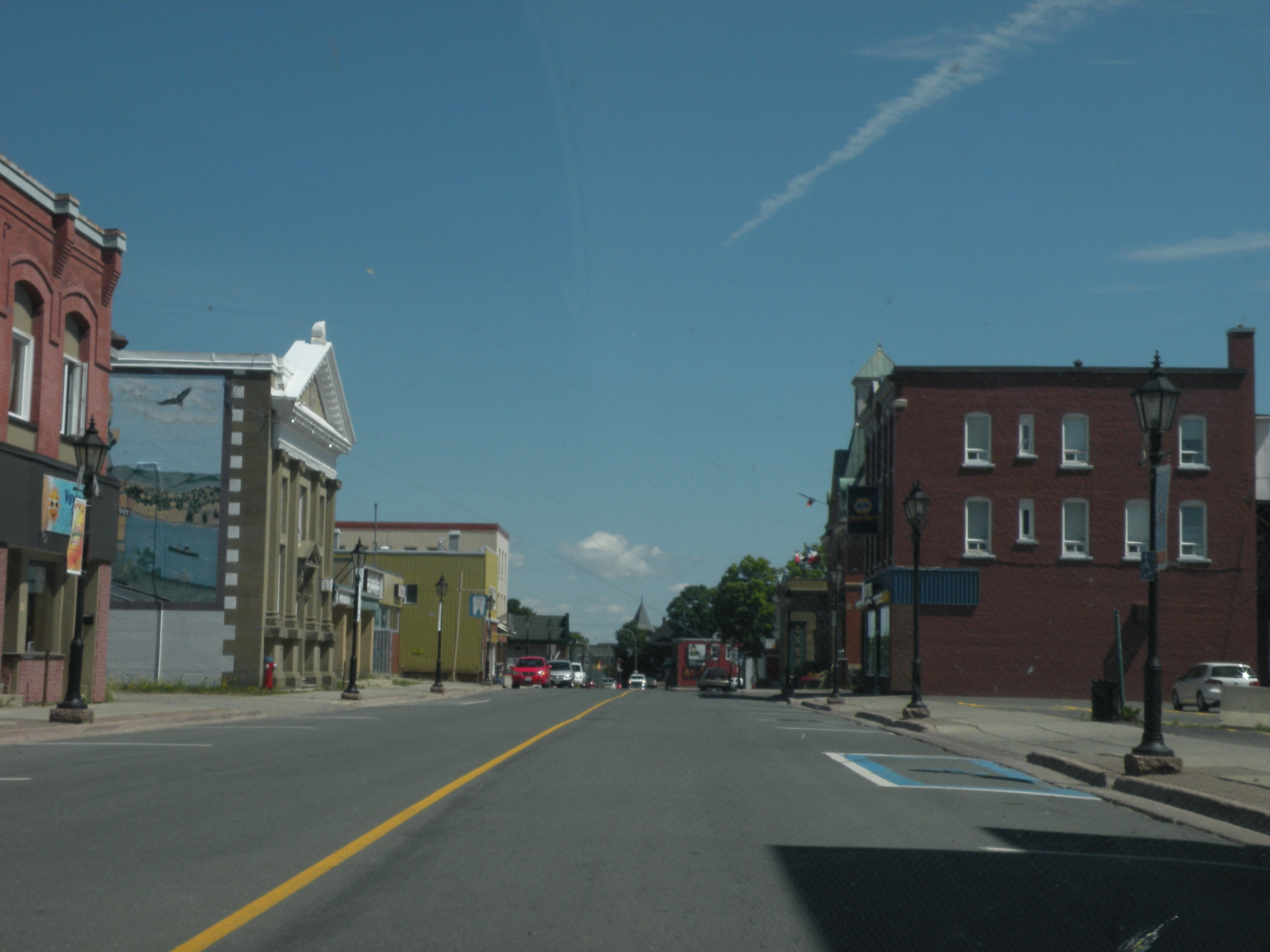 Water Street in Campbellton, New Brunswick, Canada.